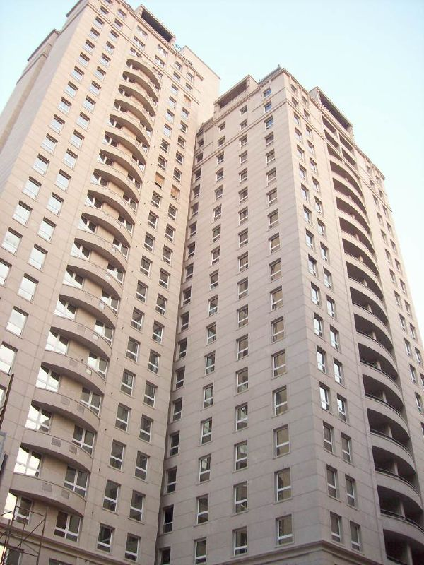 Elysée tower located in Nueva Cordoba neighborhood. Cordoba, Argentina.